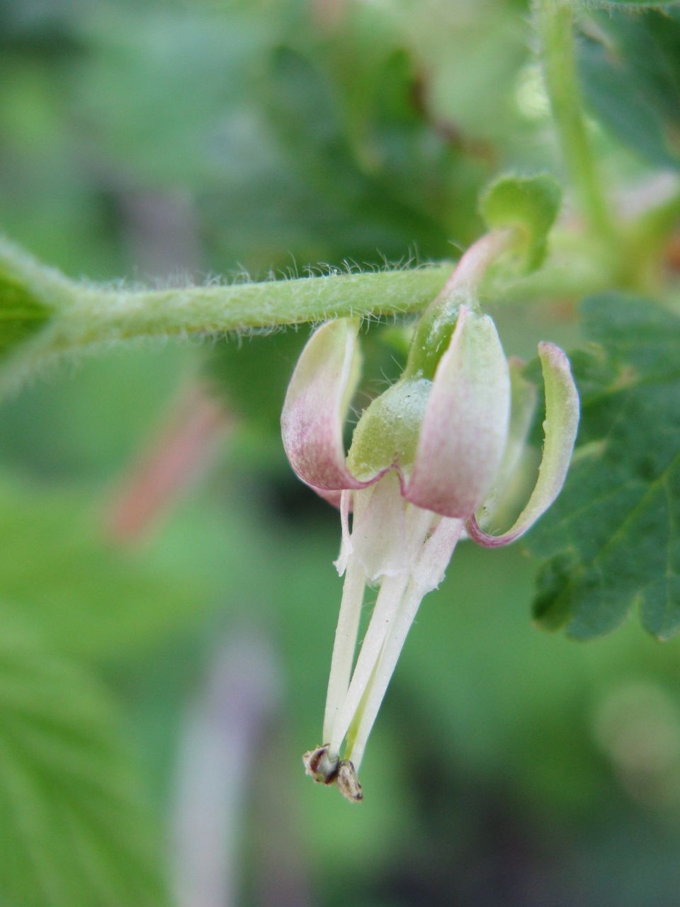 Toronto, Ontario, cultivated, derived from wild plant